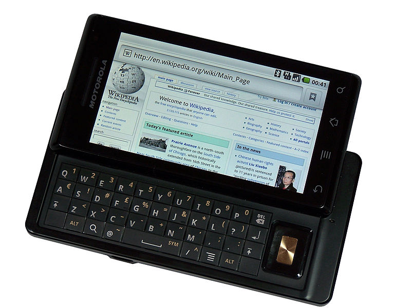 Motorola MILESTONE smartphone displaying Wikipedia home page